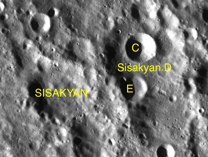 Part of the chart LAC-30 used for the presentation.